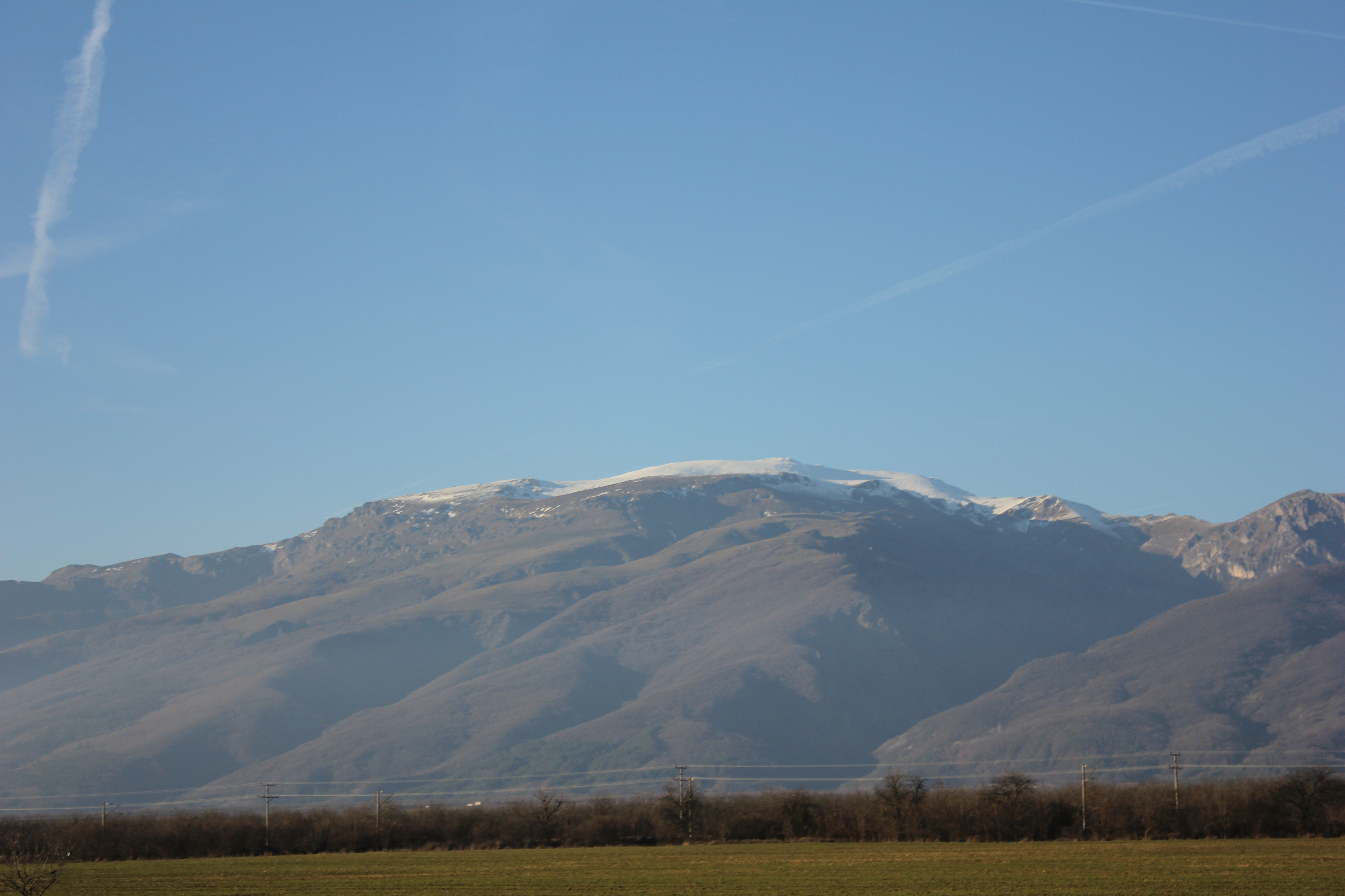 Triglav Peak in Stara Planina mountain (Bulgaria) view from I-6 road (Bulgaria)